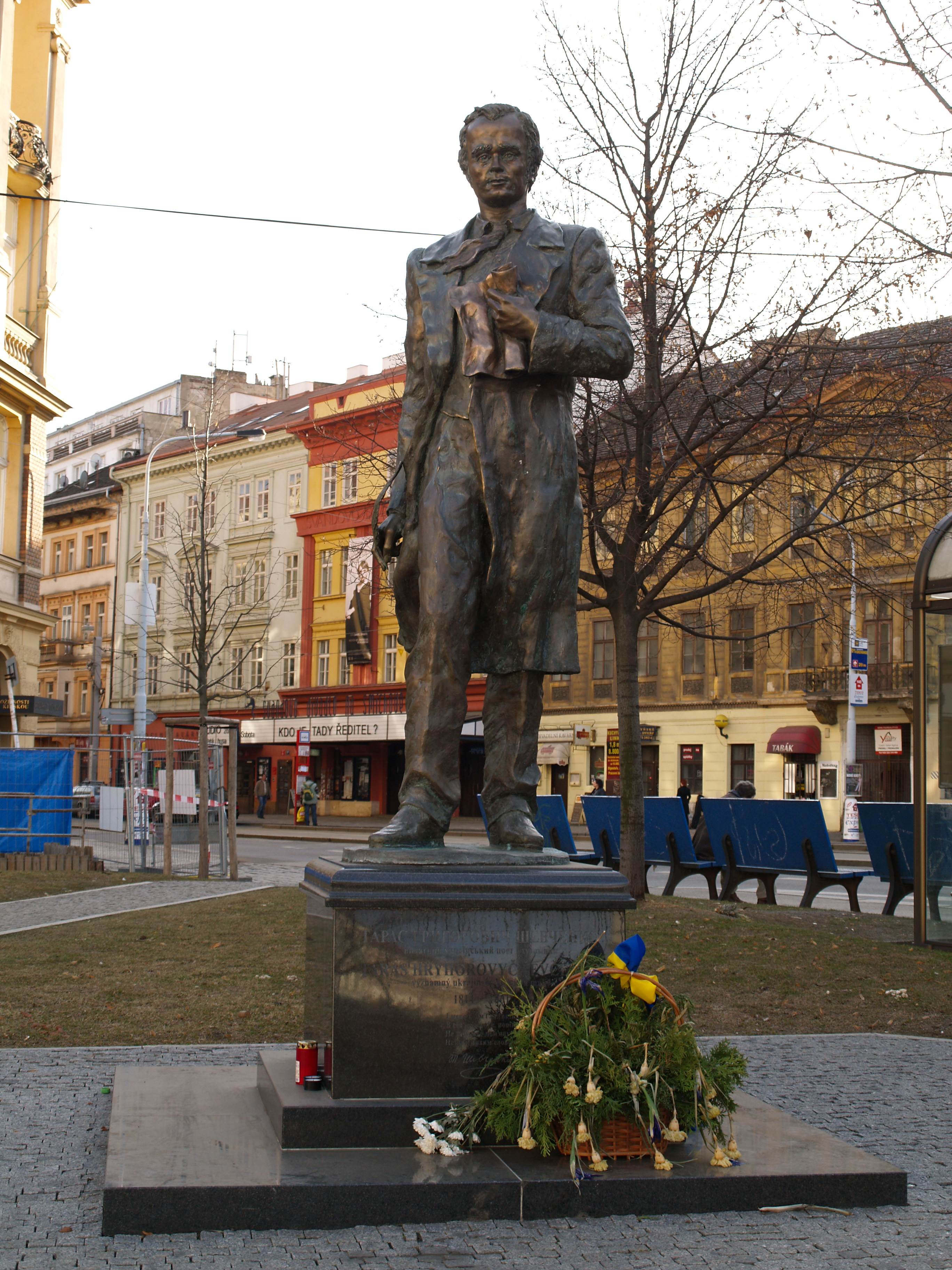 Sculpture of Ukrainian poet, artist and humanist Taras Shevchenko; located in Prague-Smíchov, inaugurated 25-MAR-2009 in presence of Ukrainian president Viktor Yushchenko; sculptor Valentyn Znoba (1929—2006, Зноба Валентин Іванович)